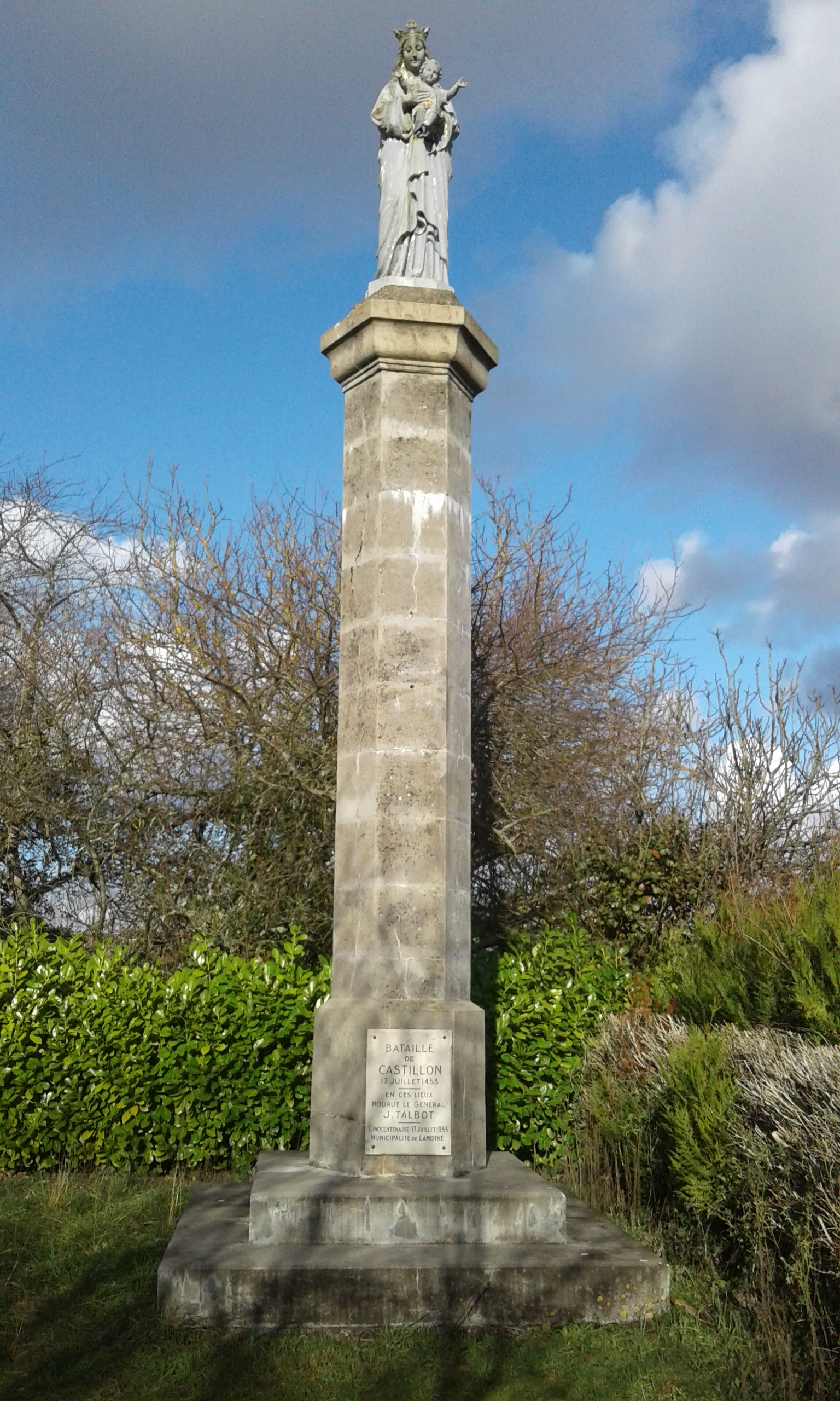 Monument to John Talbot, 1st Earl of Shrewsbury, on the battlefield of the Battle of Castillon in the Hundred Years' War. It is close to Castillon-la-Bataille in France.